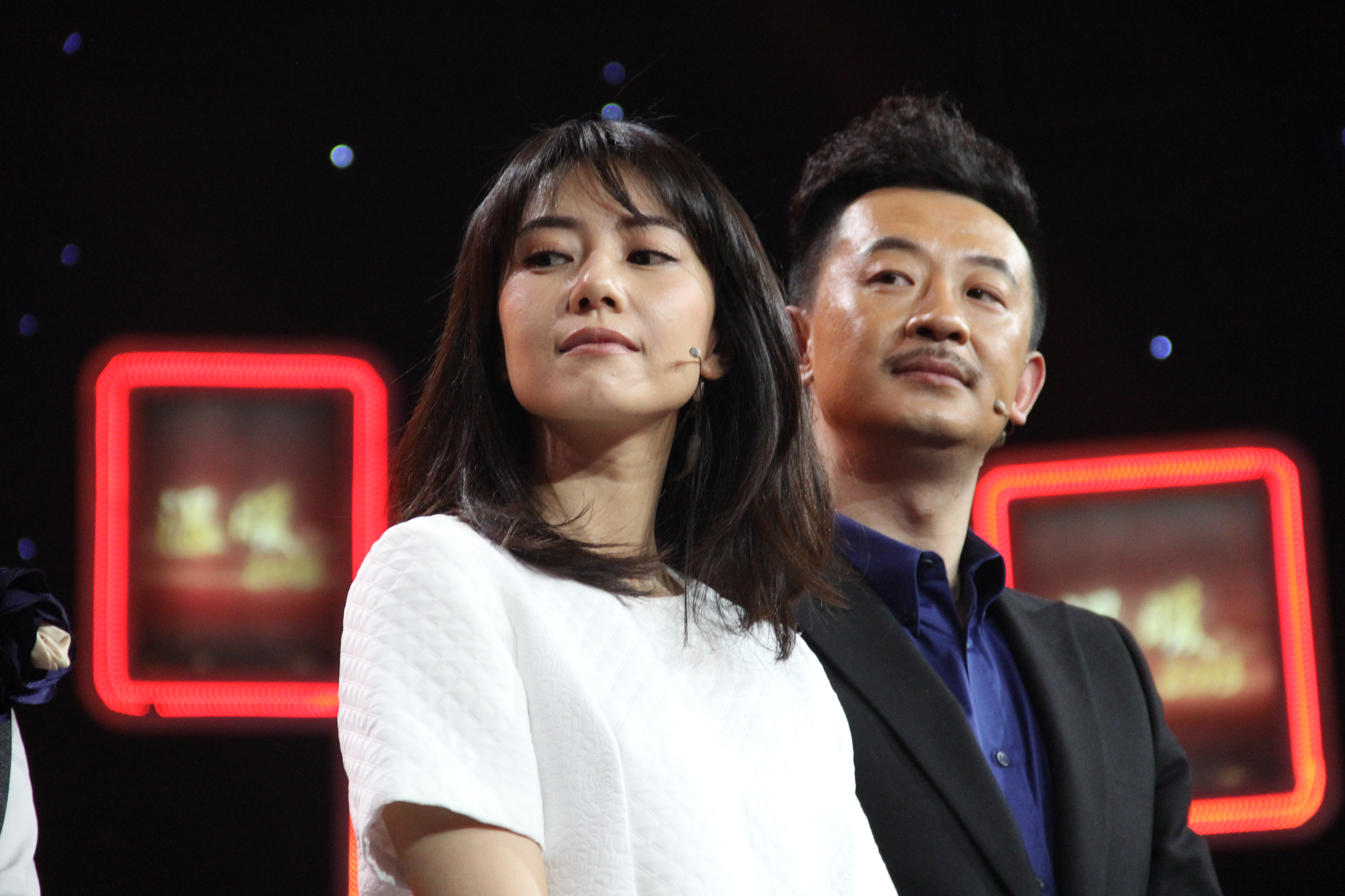 This photo was taken during the filming of Chinese talk show Art Life. In this episode, cast and director of popular TV drama We Let Married were invited.中文（中国大陆）: 这张图片于《艺术人生》的片场拍摄，这集邀请了《咱们结婚吧》的演员和导演。